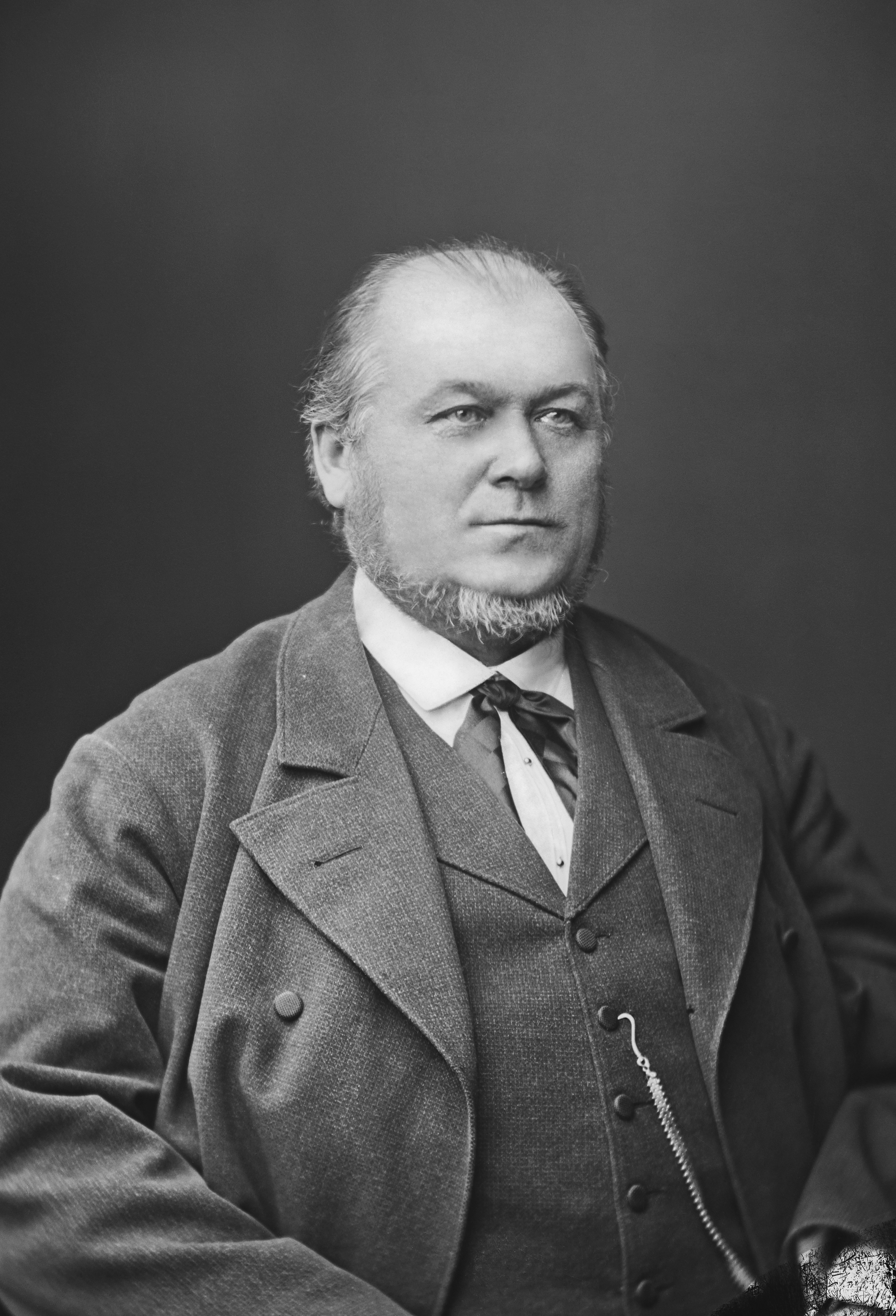 Photograph of the Finnish member of the diet, Heikki Jaatinen (1829–1879).